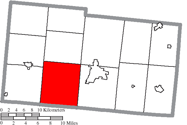 Map of the municipal and township boundaries of Champaign County, Ohio, United States, as of the 2000 census, with the location of Mad River Township highlighted. Township borders are shown only in unincorporated areas in order to differentiate incorporated and unincorporated areas more clearly.